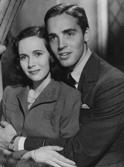 Teresa Wright and Richard Ney in film Mrs. Miniver (1942)